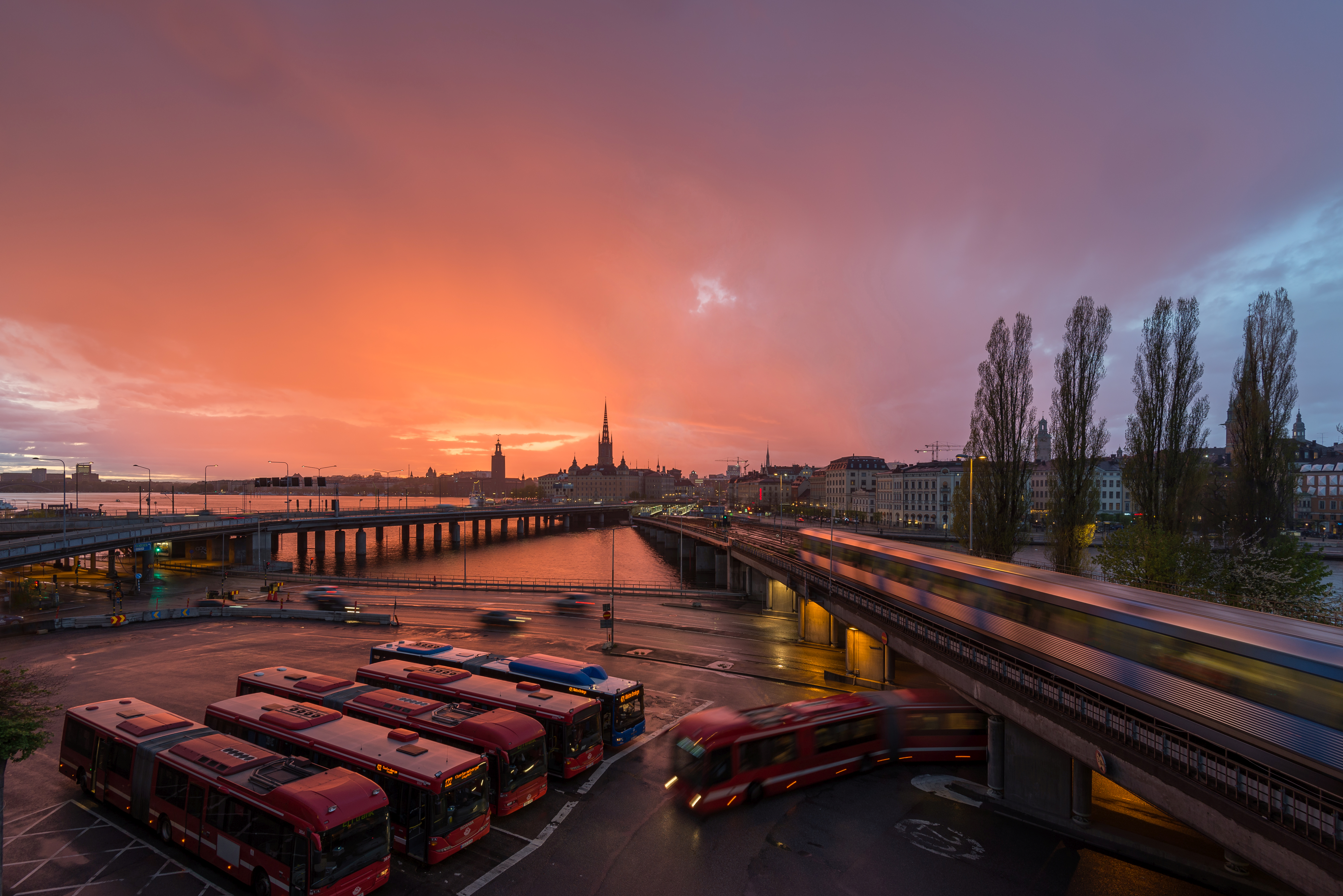 View from Slussen towards Gamla stan (Old town) and Riddarholmen. In the background Kungsholmen and Stockholm City Hall.